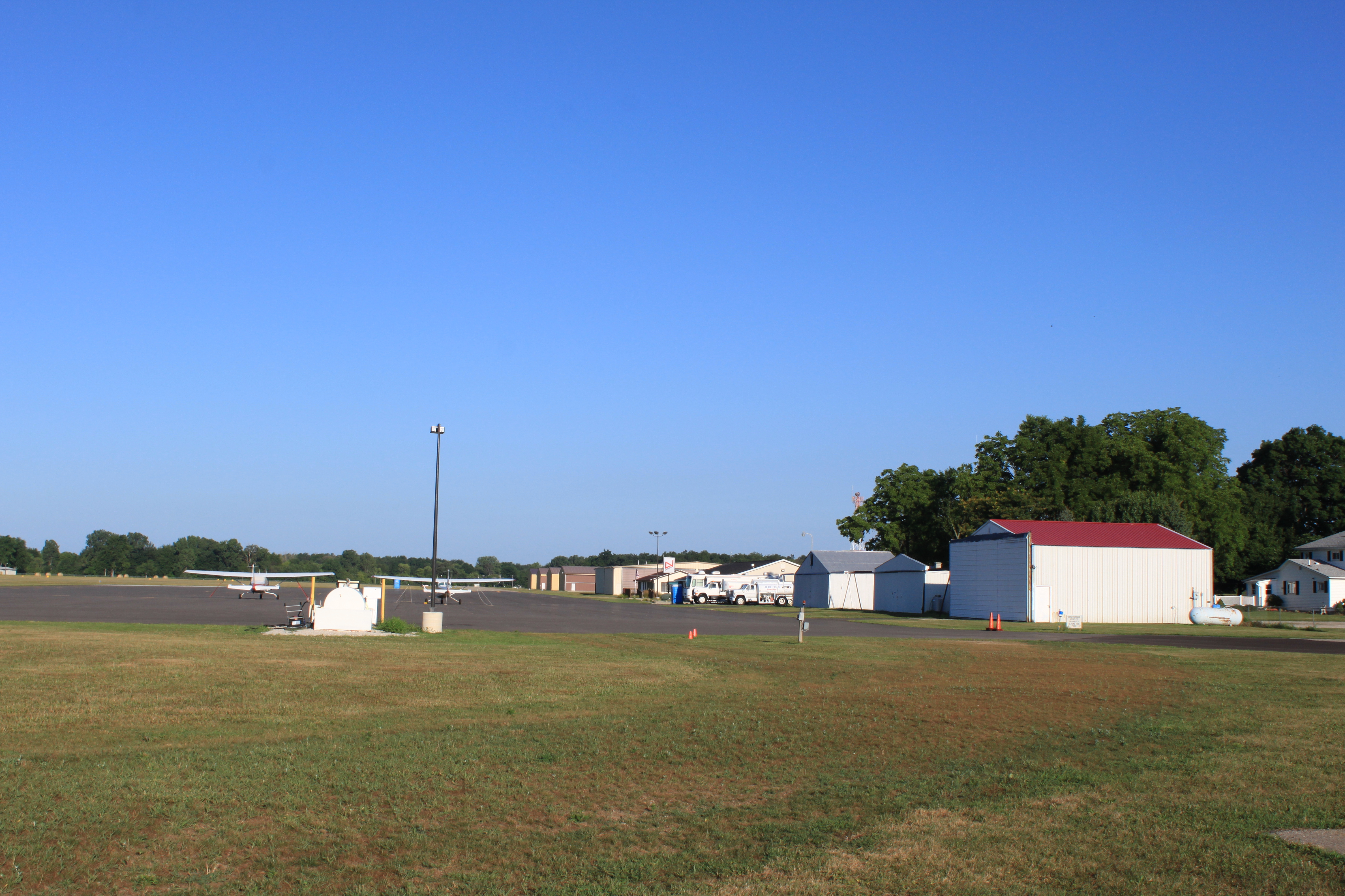 Lenawee County Airport, Michigan, tarmac, hangar and terminal area.